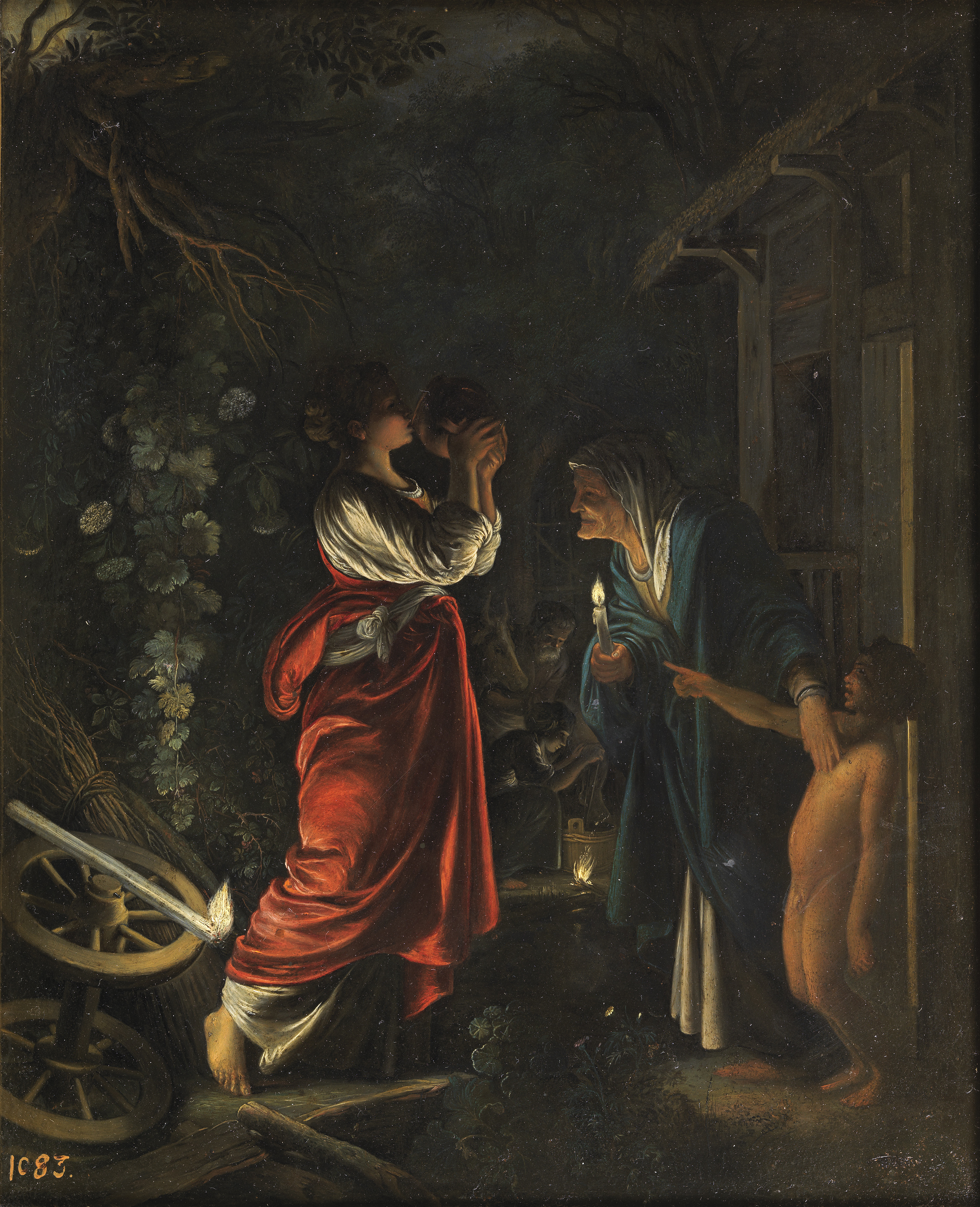 Ceres is mocked by a boy (Ovid. Met. V, 449-450).